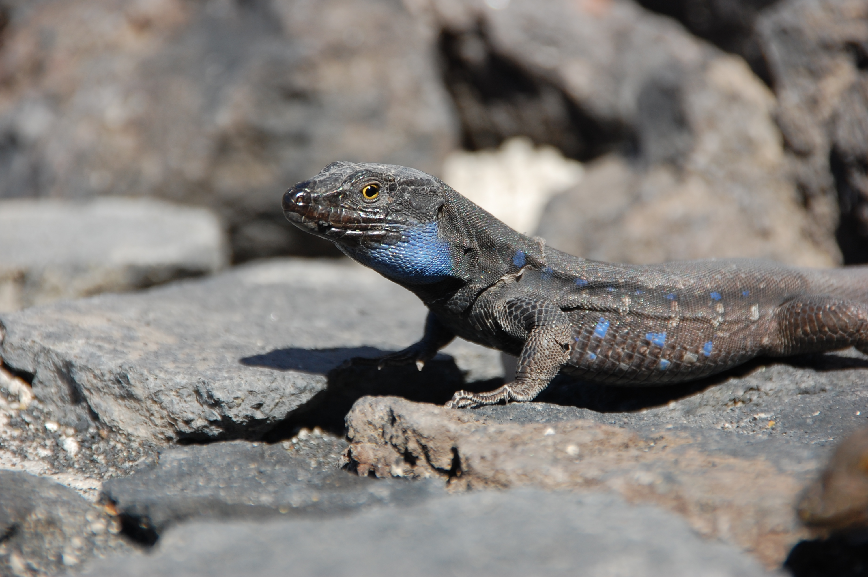 West Canarian lizard, male Gallotia galloti - La Palma, Westcoast, seen near by Charco Verde beach